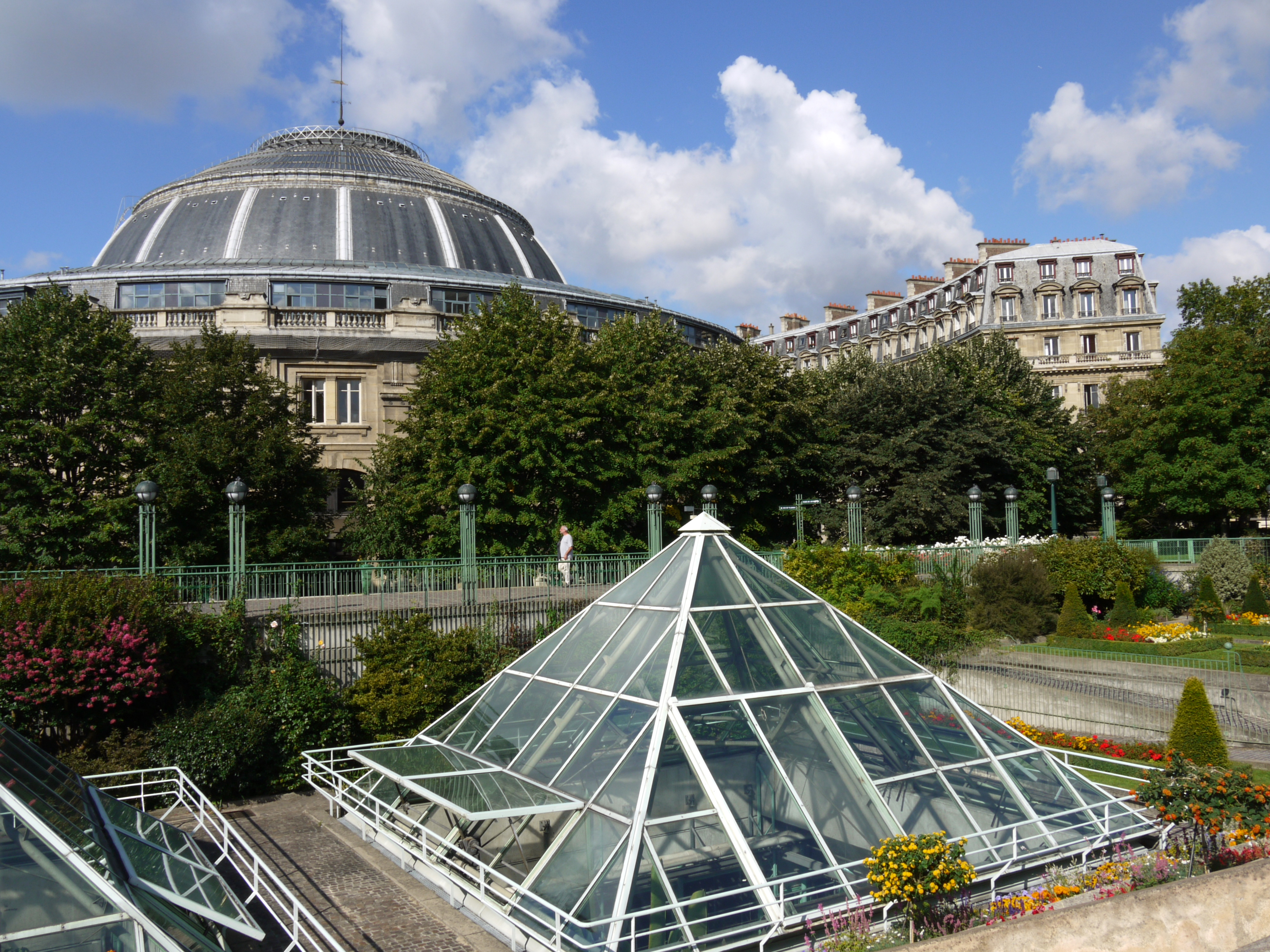 Bourse de Commerce, Paris